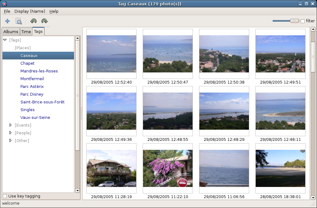 Interface_JBrout_tag_en